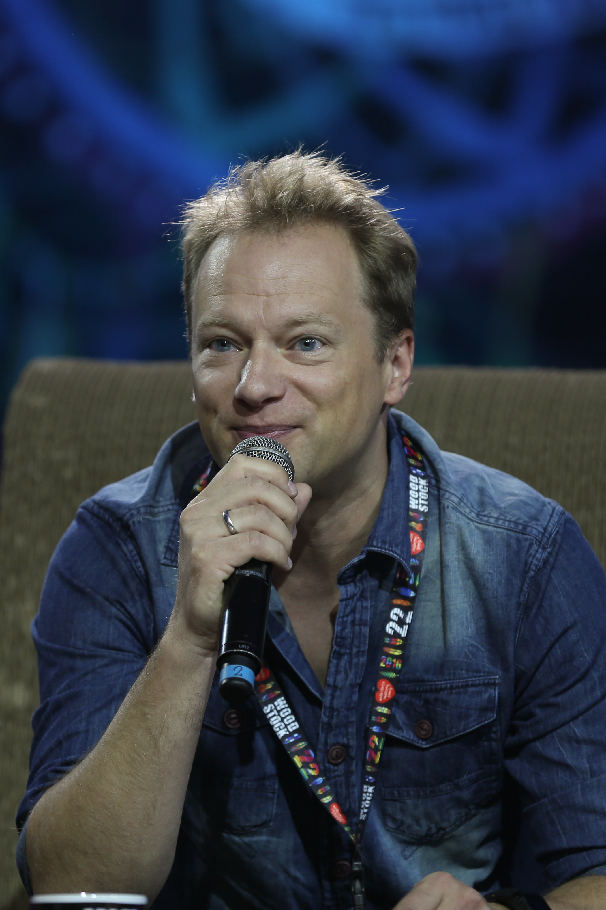 Przystanek Woodstock in 2016.